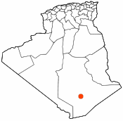 Blank map of the provinces of Algeria with a red city locator dot. Made by User:Escondites, blank version by User:Golbez.